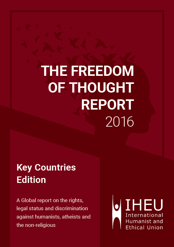 The cover image of the IHEU Freedom of Though Report on discrimination and persecution against the non-religious features an image of a head in profile which appears to be disintegrating into stylized birds. The predominant colour is drawn from the logo of the International Humanist and Ethical Union (IHEU) which publishes the report.